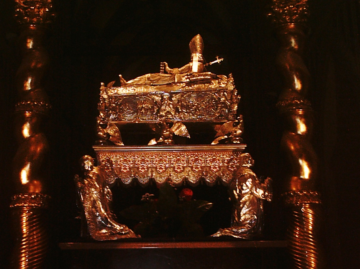 Silver coffin of St. adalbert in Gniezno, Poland